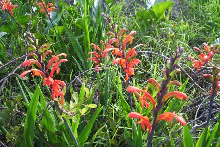 Flowers of Cape Flats Dune Strandveld vegetation. Macassar Dunes reserve. Cape Town.